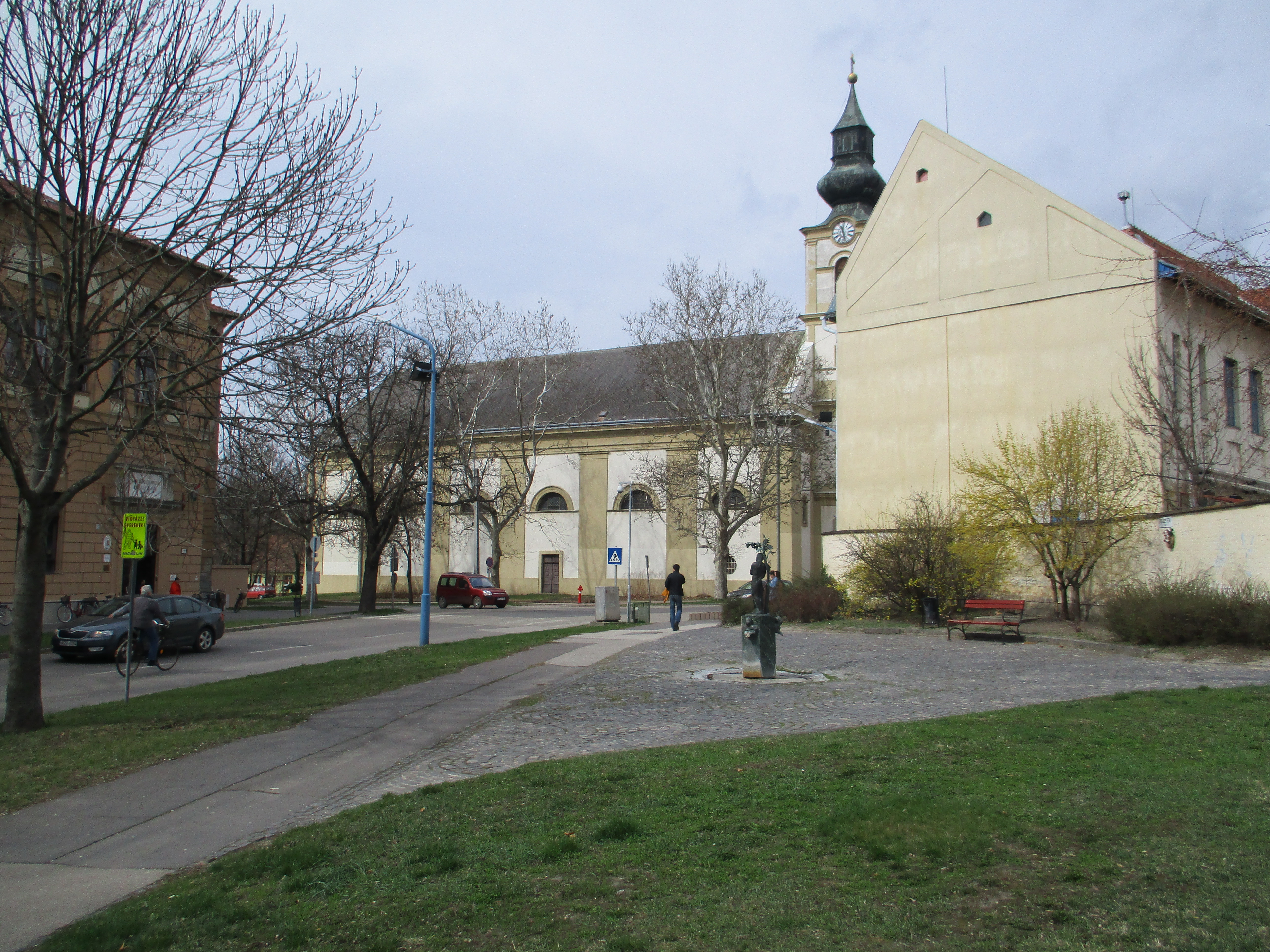 The Geza Szollosy Square opposite the secondary school